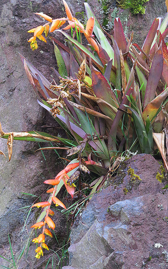 Native to the highlands of northern South America. Photo from the Papallacta Hotsprings area of Ecuador. In context at